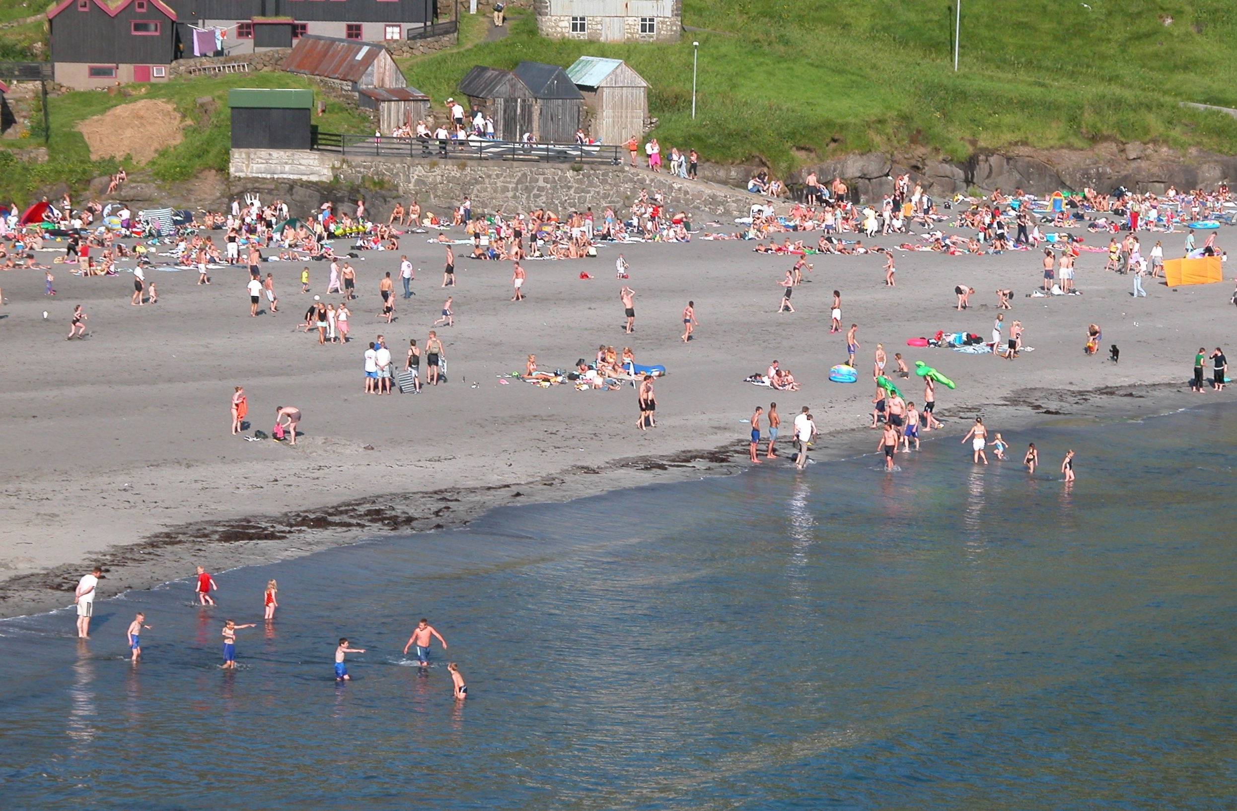 Leynar on Streymoy, Faroe Islands